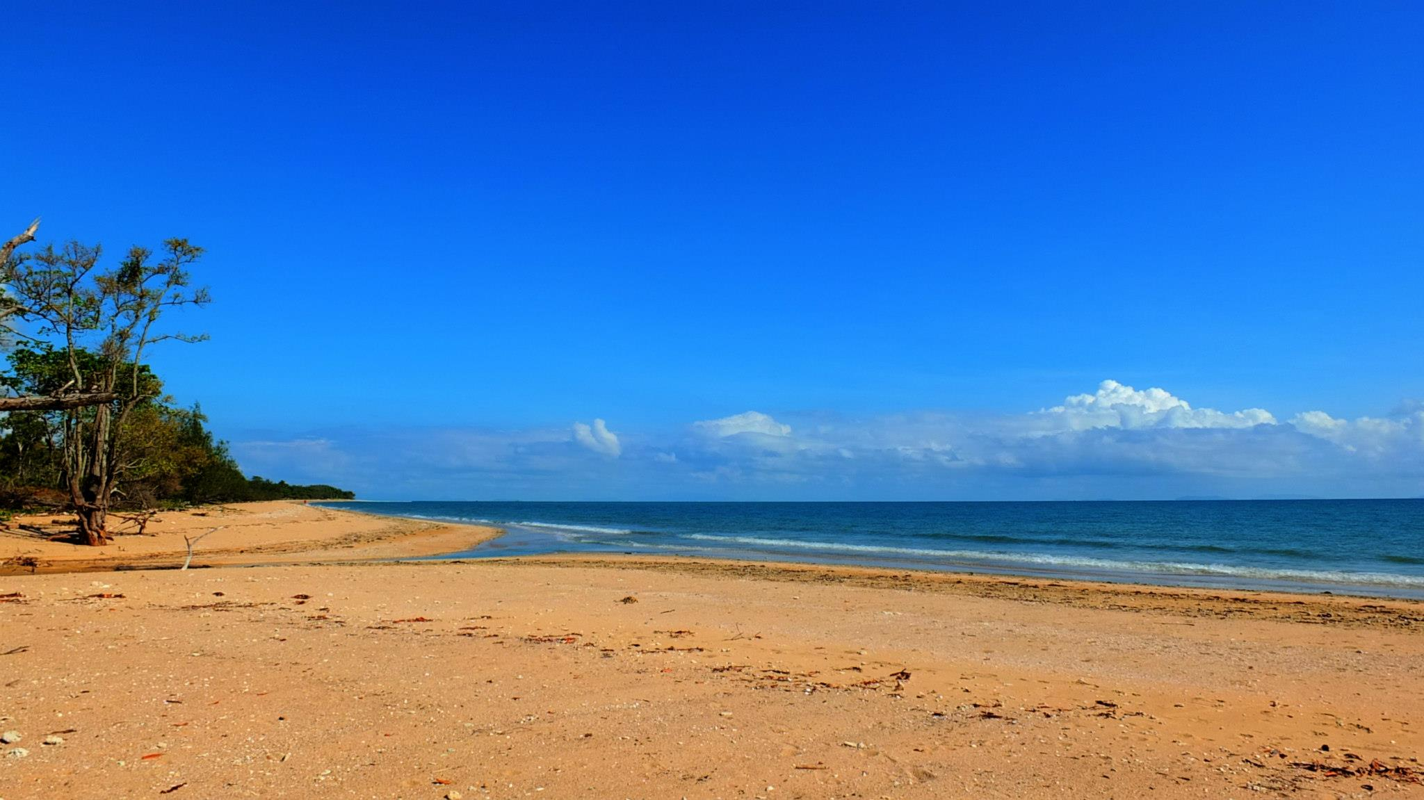 A photograph of Balgal Beach